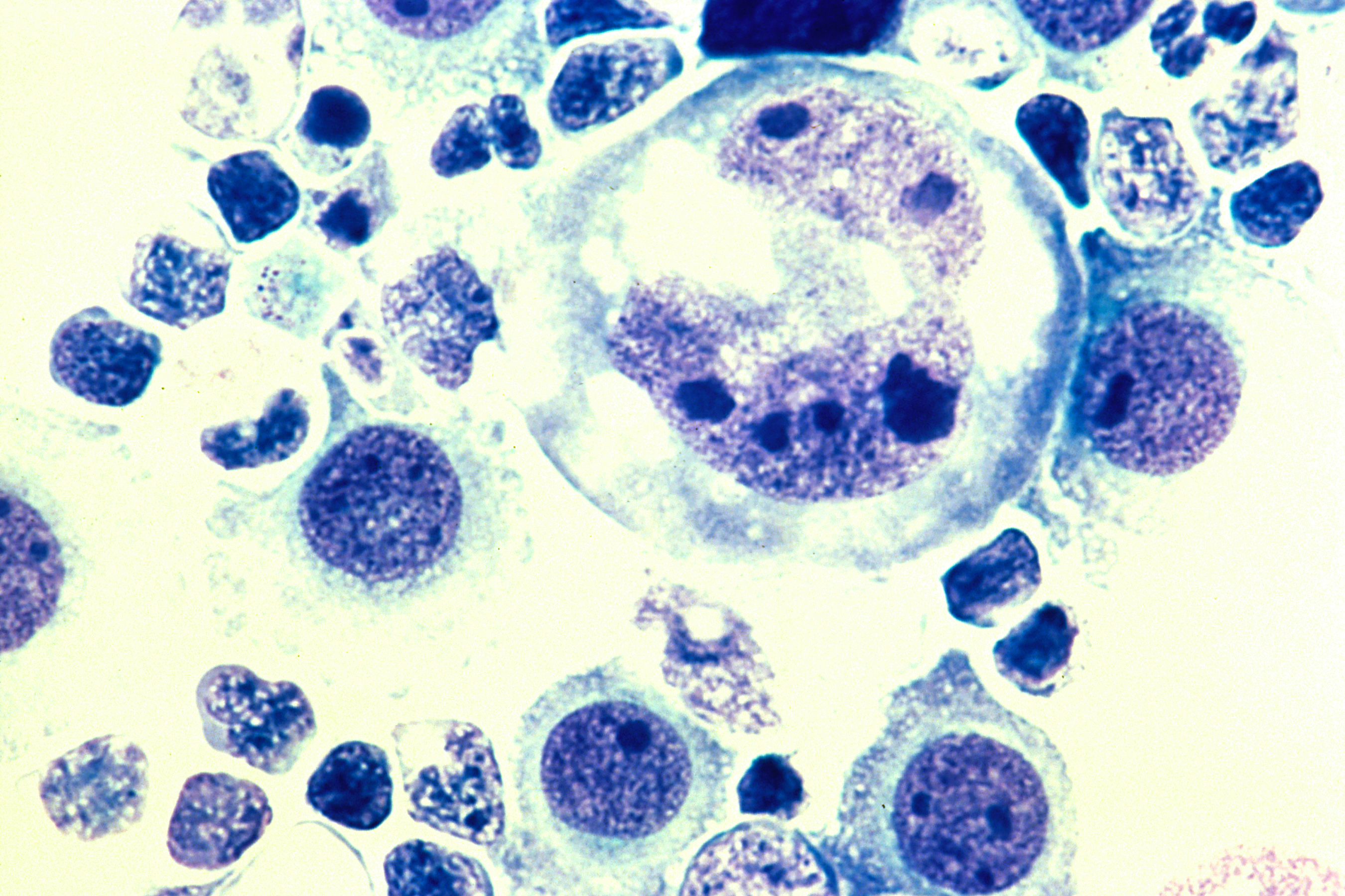 Title Lymphoma Description Human lymphoma tumor cells in the pleural fluid stained with a Defquick stain and magnified to 400x. Included are 2 variations. Topics/Categories Cancer Types -- Lymphoma Cells or Tissue -- Abnormal Cells or Tissue Type Color, Photo Source Dr. Lance Liotta Laboratory